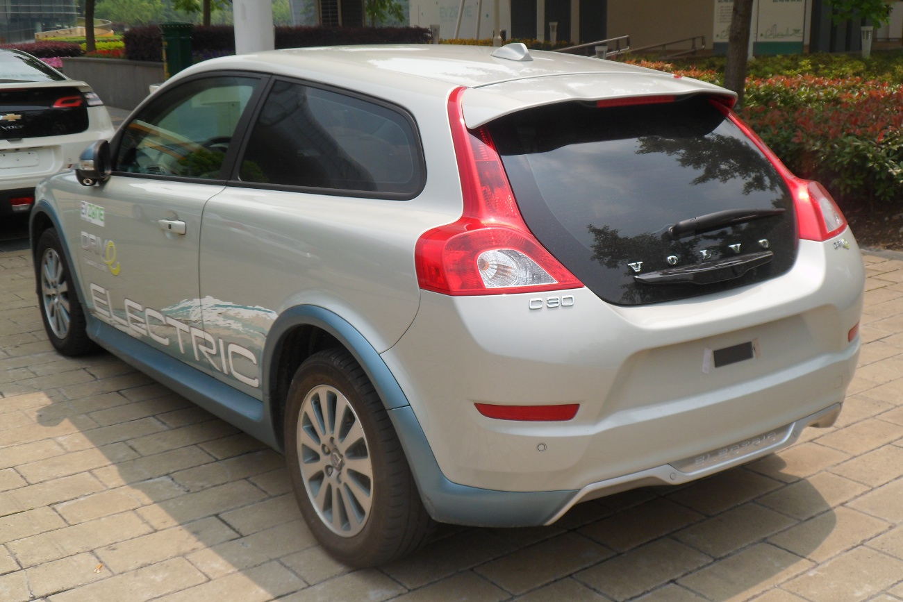 Volvo C30 DRIVe facelift photographed in Anting, Shanghai municipality, China.